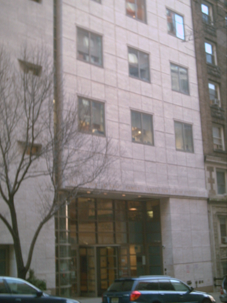 Exterior of Columbia/Barnard Hillel